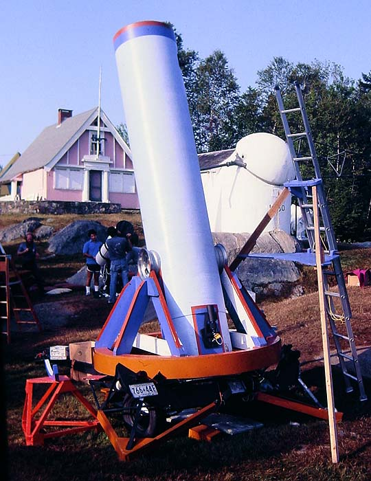 Description: A large trailer mounted Newtonian reflector on display at Stellafane in the early 1980's. Date: created August of 1983 Author: Halfblue Permission: I, the creator of this work, hereby release it into the public domain.